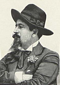 Jorge Colaço (1868-1942), Portuguese painter